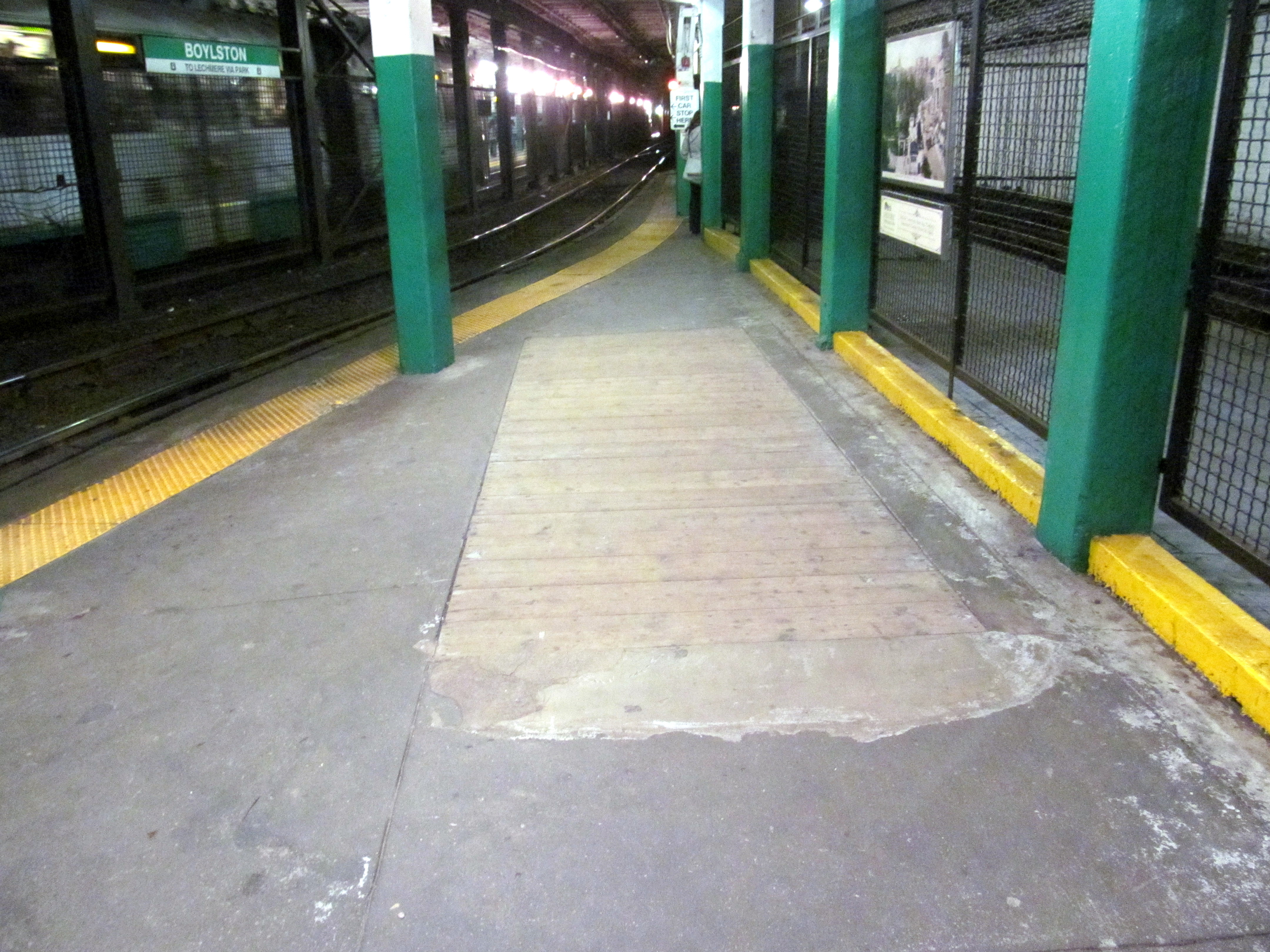 Boylston station once had an underpass to allow transfer between inbound and outbound platforms within fare control. This was likely closed after Boylston ceased to be a transfer station with the closure of the southern section of the Tremont Street Subway in the 1960s.